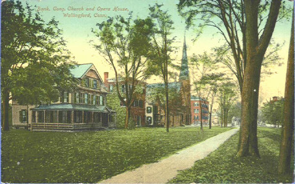 Postcard depicting "Bank, Cong. Church and Opera House, Wallingford, Conn." with 1912 postmark. According to source Web page: "Pub by The August Schmelzer Co, Meriden, Conn"